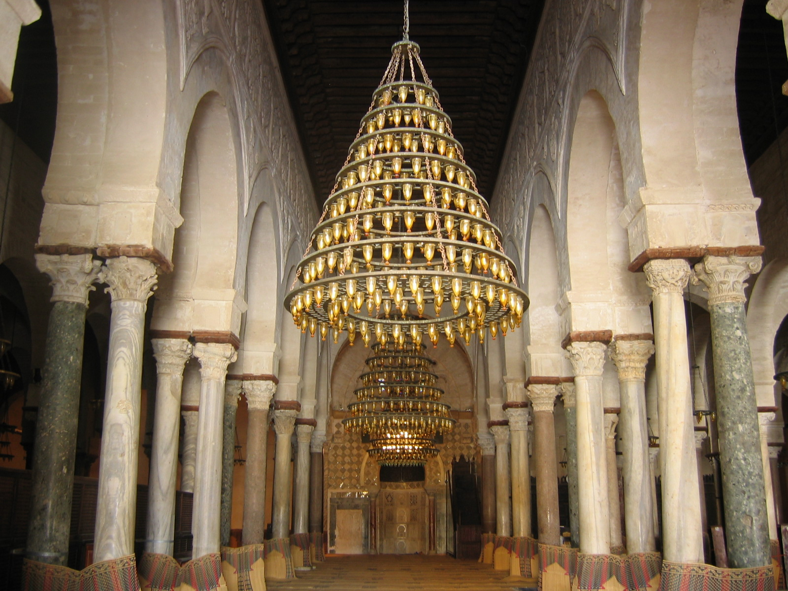 Ancient Roman columns and Mosque lamps in the Prayer hall—Great Mosque of Kairouan, Tunisia.